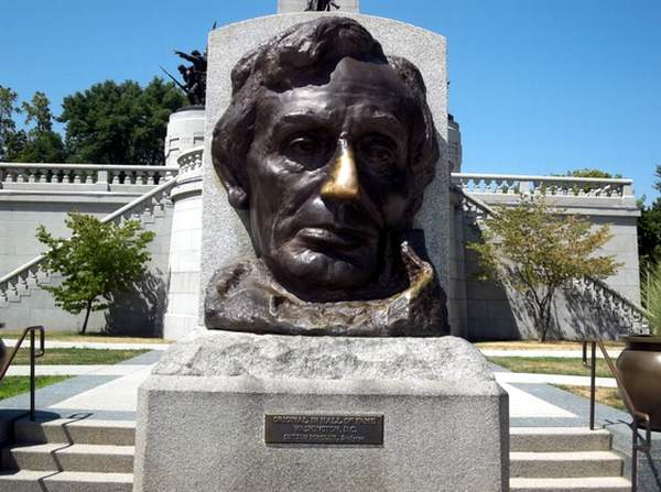 This is an image of the bronze reproduction of Gutzon Borglum's head of Abraham Lincoln. Tradition holds that to rub Lincoln's nose brings good luck, thus the shiny appearance. It is located outside the Lincoln Tomb in Springfield, Illinois.